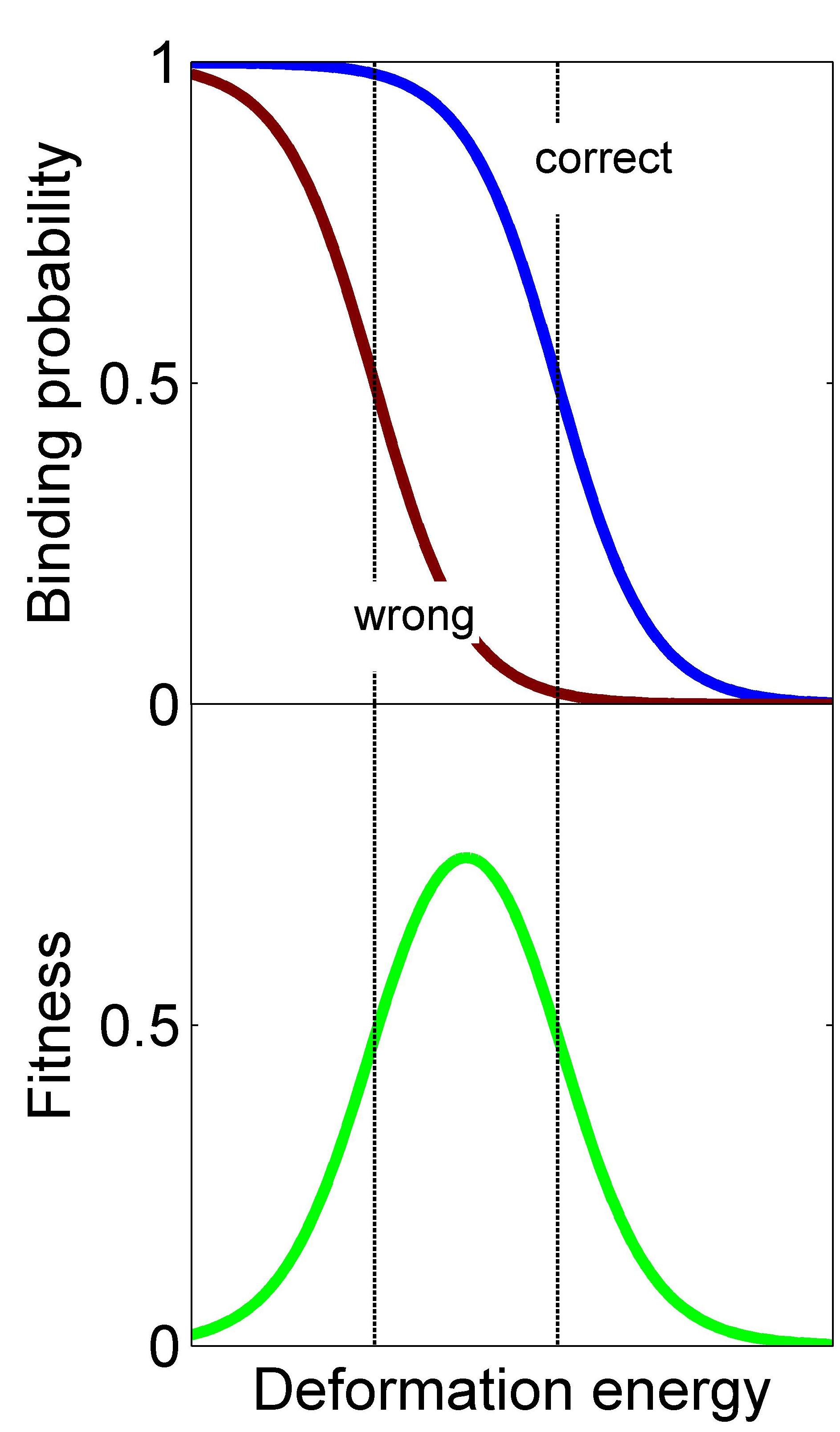 graphs of conformational proofreading model